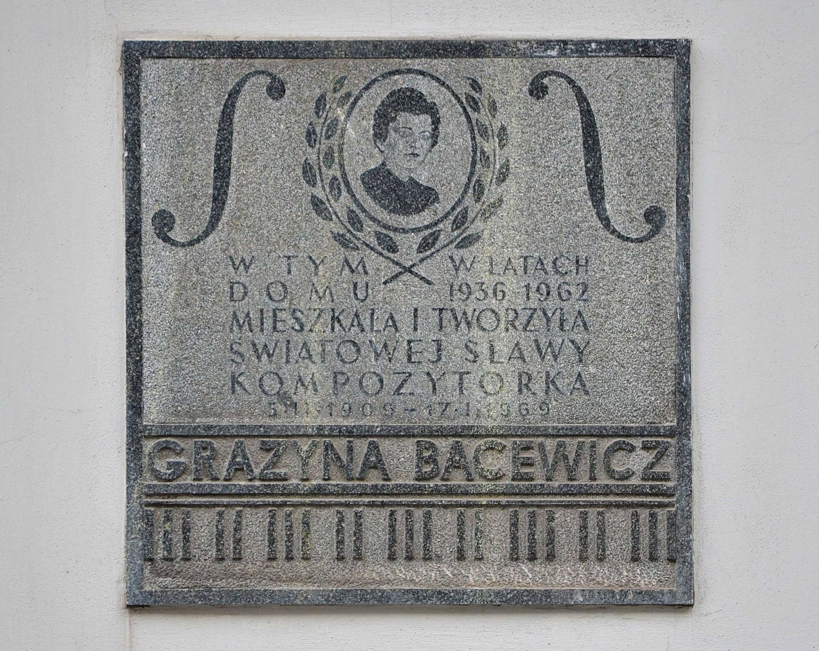 Plaque in memory of Grażyna Bacewicz at 35 Koszykowa Street in Warsaw